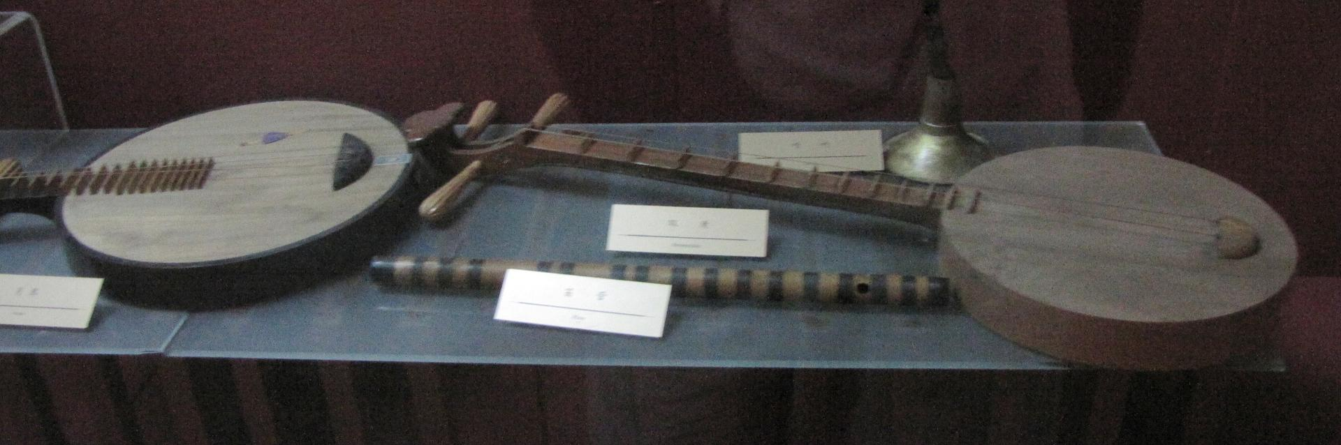 Instruments in Min Opera